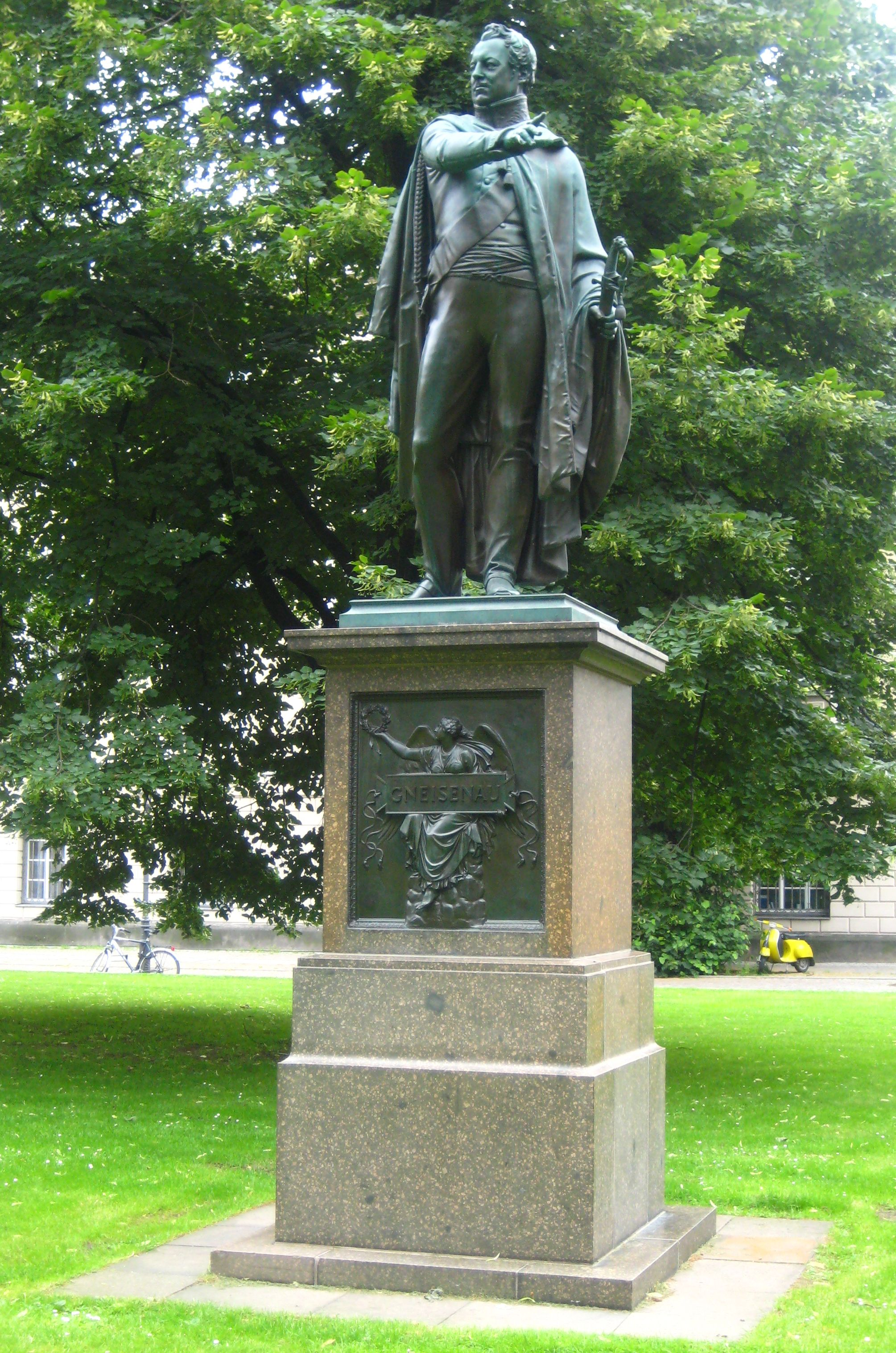 Memorial for General August Neidhardt von Gneisenau on Bebelplatz in Berlin-Mitte. It was created in 1855 by Christian Daniel Rauch. The sculpture has been designated as a historic landmark.